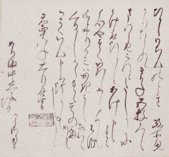 Kita no Mandokoro Black-sealed Letter: A black-sealed letter of Kita no Mandokoro (1547–1624), written by her Chief Lady-in-Waiting Kōzōsu, to Arima Noriyori, the Lord Mita of Settsu, acknowledging the reimbursement of the money she had been loaning to the lord. Ink on paper, hanging scroll.